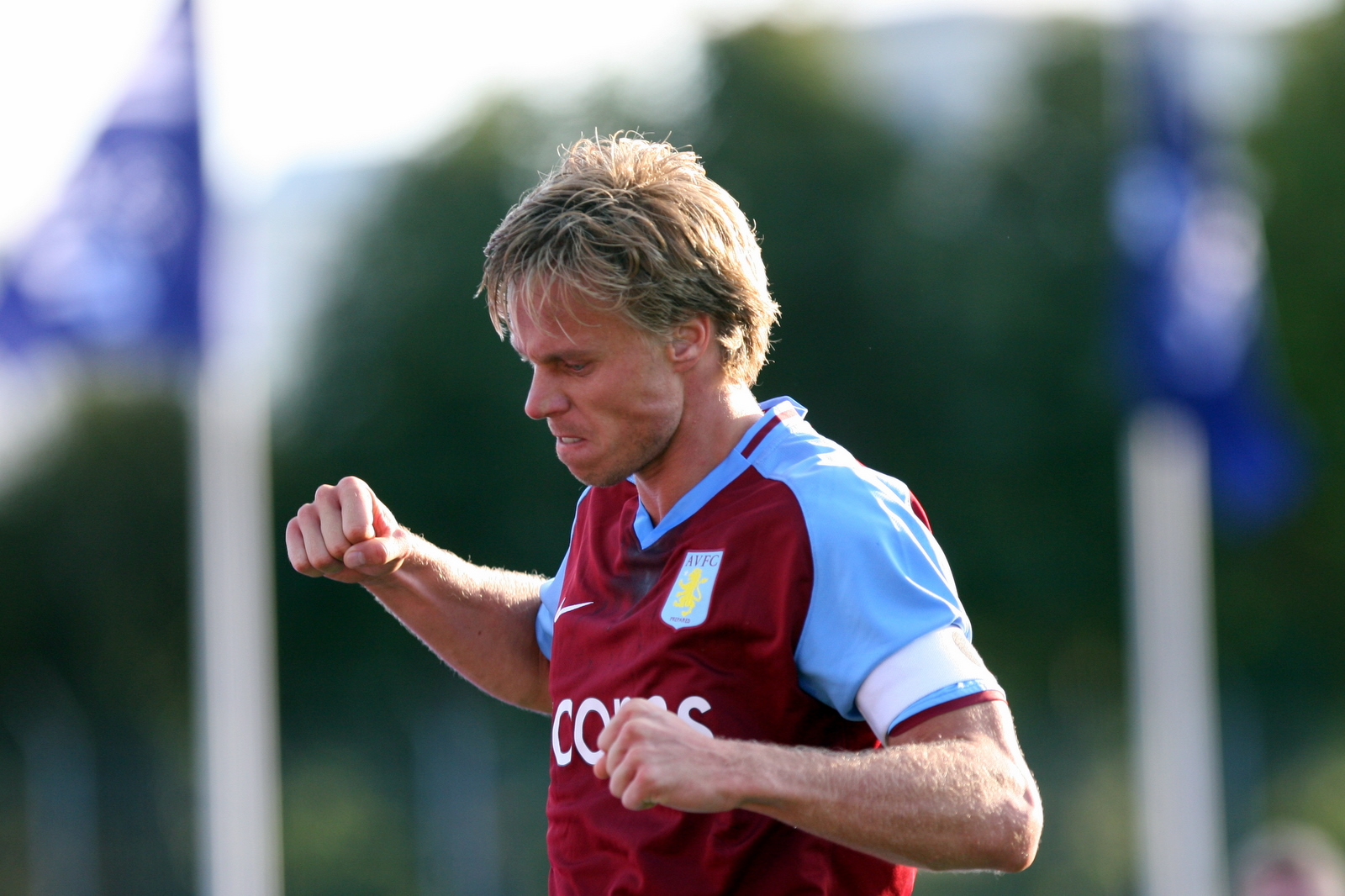 Martin Laursen of Aston Villa